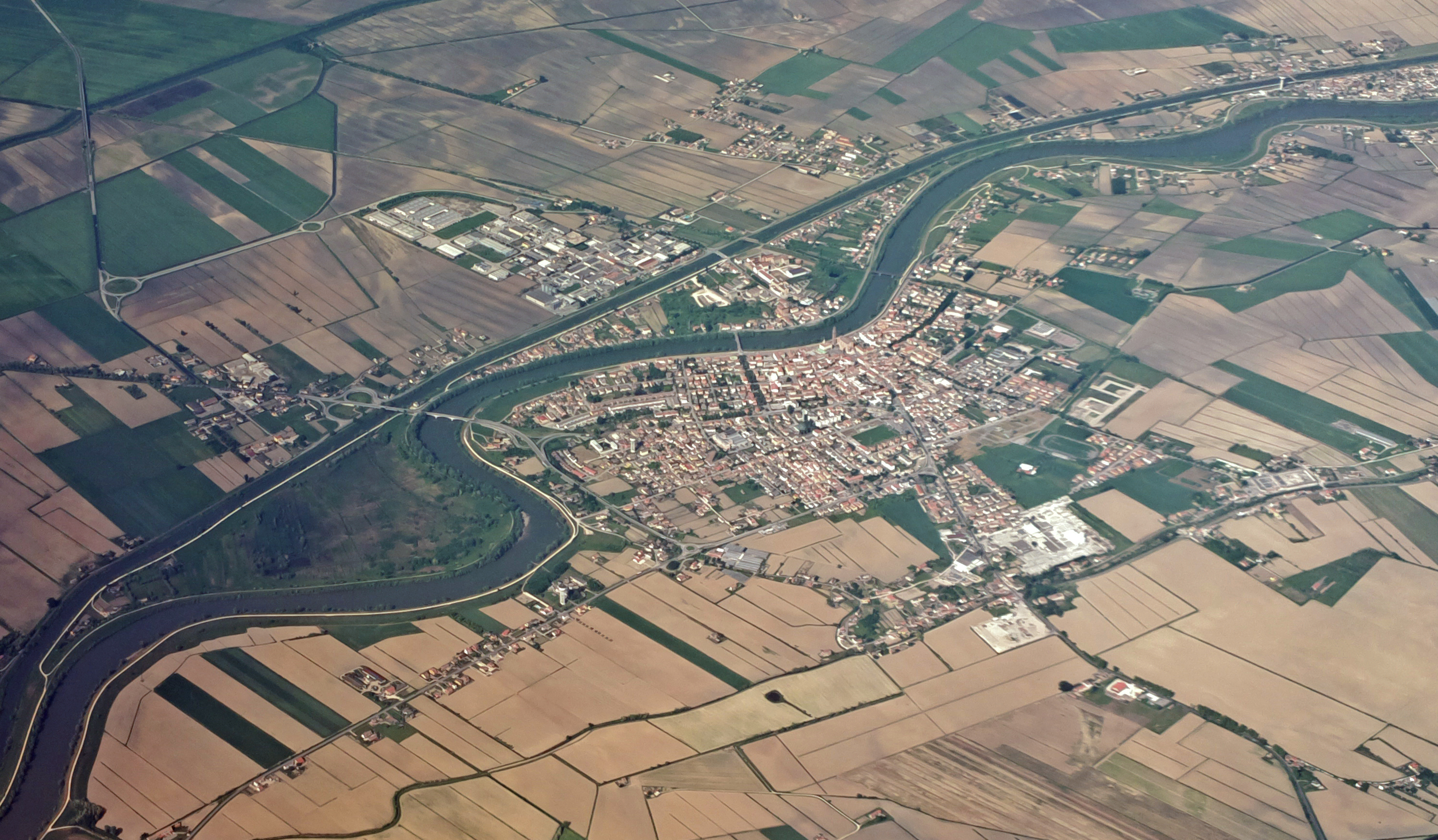 Aerial view of Cavarzere, Veneto, Italy.